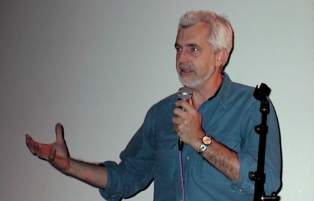 R. J. Mical at Alternative Party 3